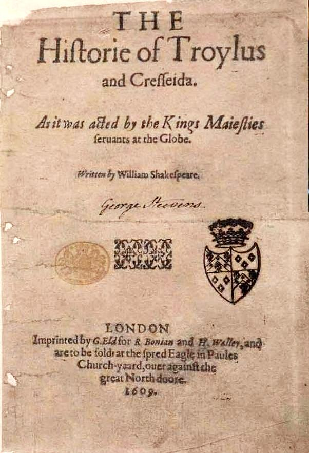 First state of the first quarto of Troilus and Cressida (1609)